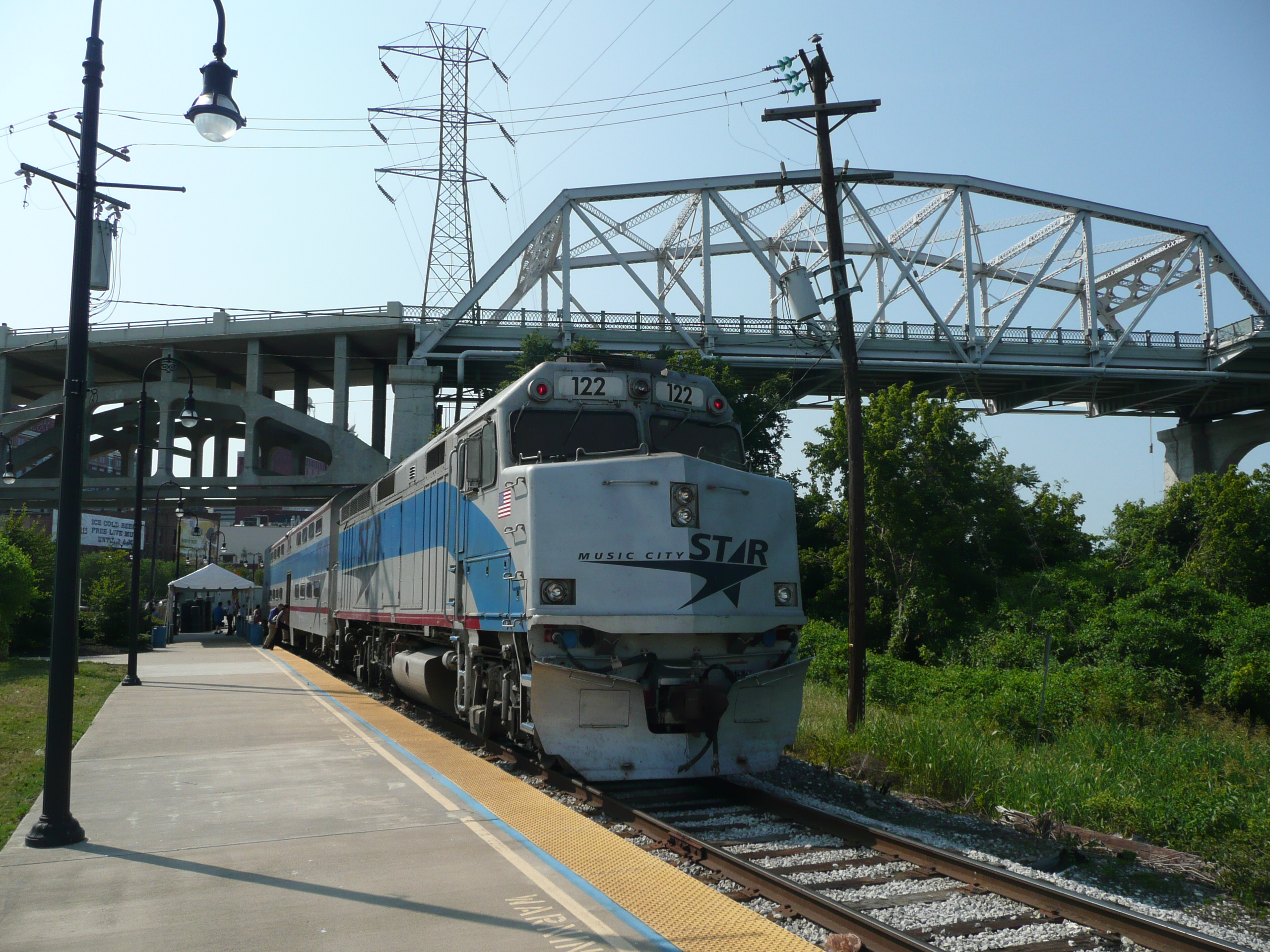 A. Music City Star commuter train at Nashville Riverfront Station.